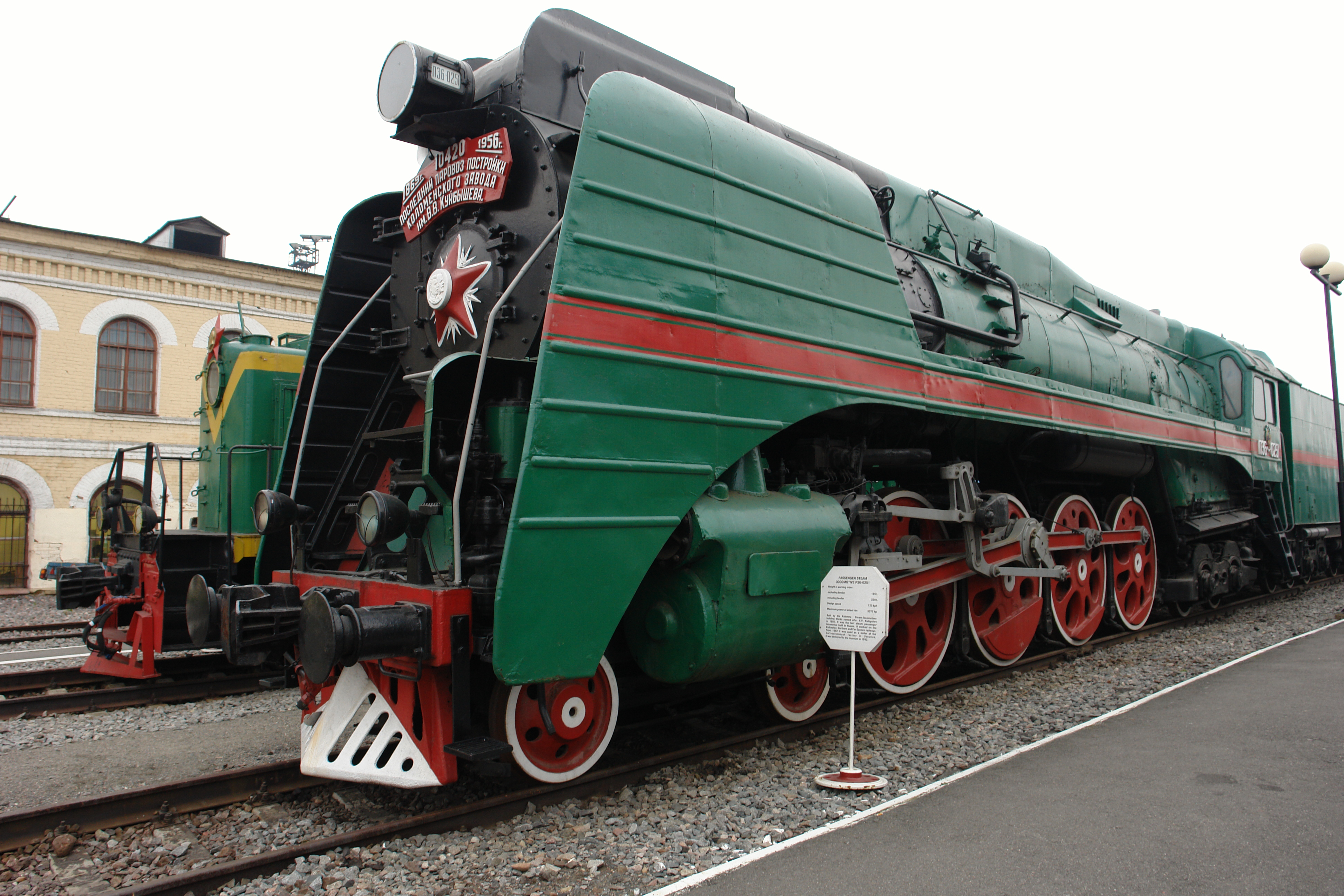 Passenger steam locomotive P36-0251 Weight in working order:excluding tender135 tincluding tender230 tDesign speed125 kphMaximum power at wheel rim3077 hp Built by the Kolomna Steam-locomotive-building Works named afte V.V. Kuibyshev in 1956. It was the last steam passenger locomotive built in Russia. It worked on the Kuibyshev, Northern and Far Eastern railways. From 1982 it was used as a boiler at the Dal'vodremmash factory in Ussurisk. It was delivered to the museum in 1992.